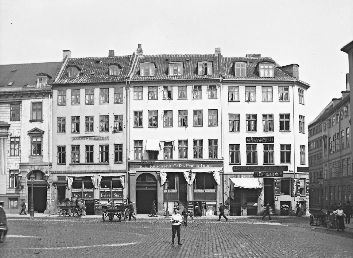 Nytorv 7-11 in Copenhagen, Denmark